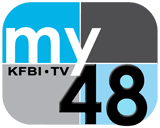 This is a logo owned by Northwest Broadcasting for KFBI-LD. Further details: Updated official logo for KFBI-LD My 48 Medford